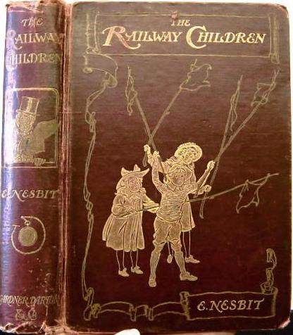 The original 1906 The Railway Children by Edith Nesbit.